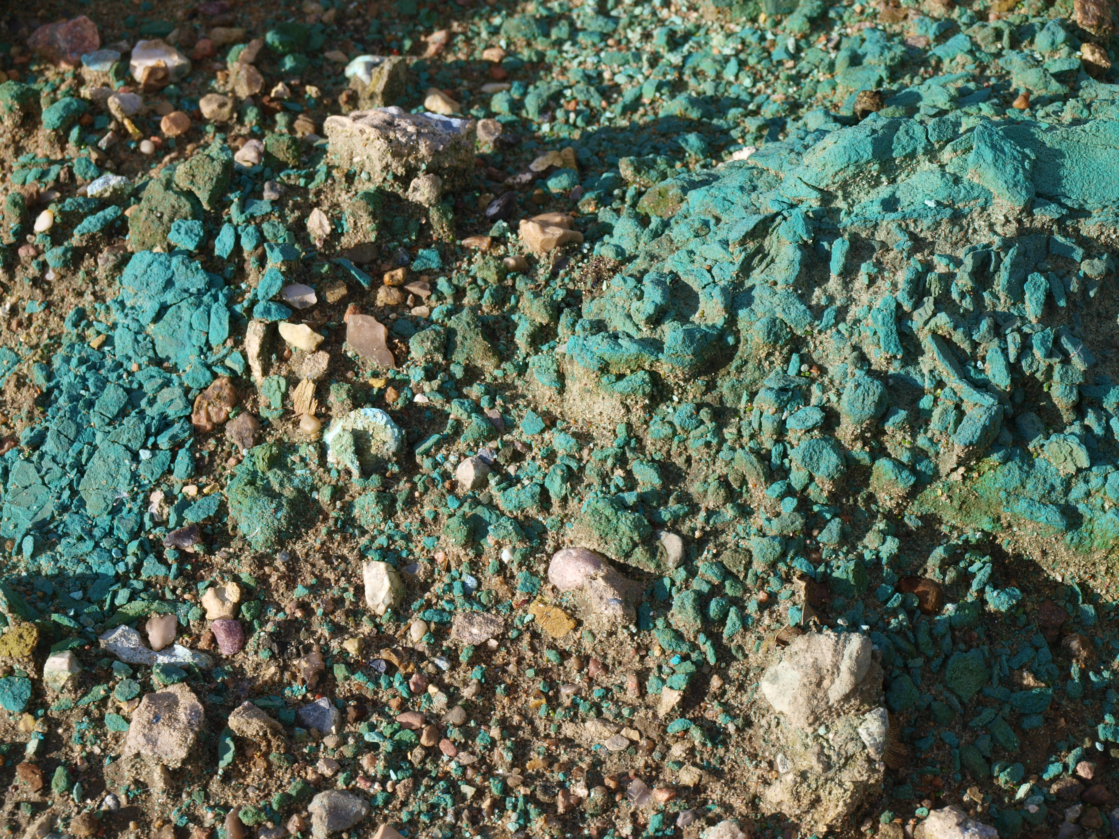 Arsenic soil pollution — at the Collstrop site, actively contaminated 1963-2007, located in Hillerod, Brabrand, Aarhus Kommune, Region Midtjylland, Denmark. Remediation study site for stabilization of arsenic and chromium polluted soils, using water treatment residues.